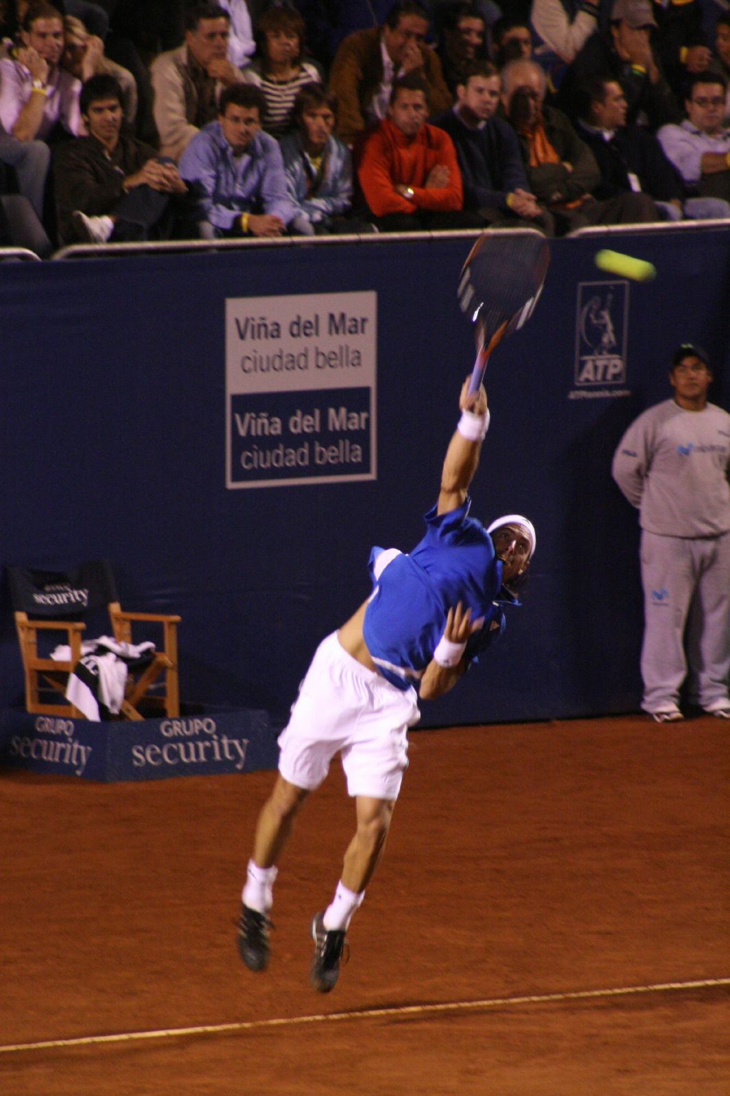 Chilean MASSU tennis player at ATP Vina 2007